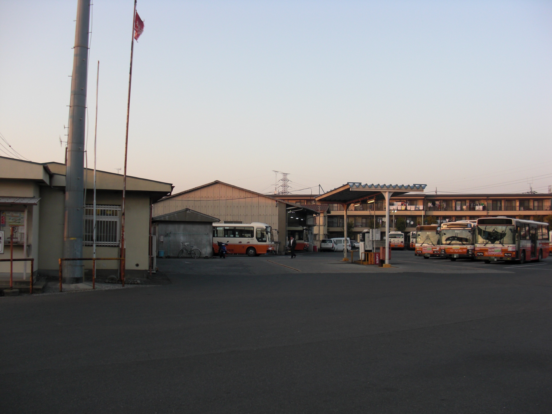 This is the Tobu Bus Central Yashio Office, which is in Yashio, Saitama, Japan.